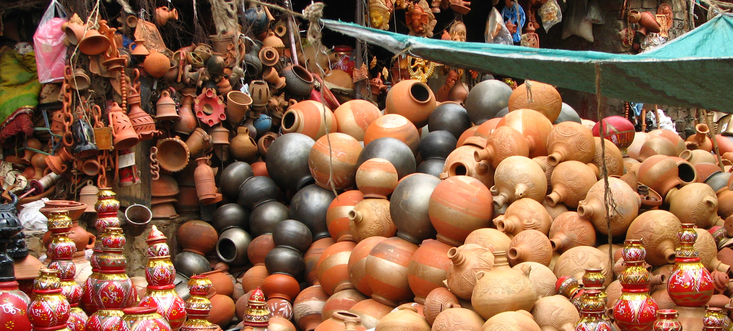 Pots, pots, big and small. The haphazard pile of a market stall in Jaipur spilling out onto the street.